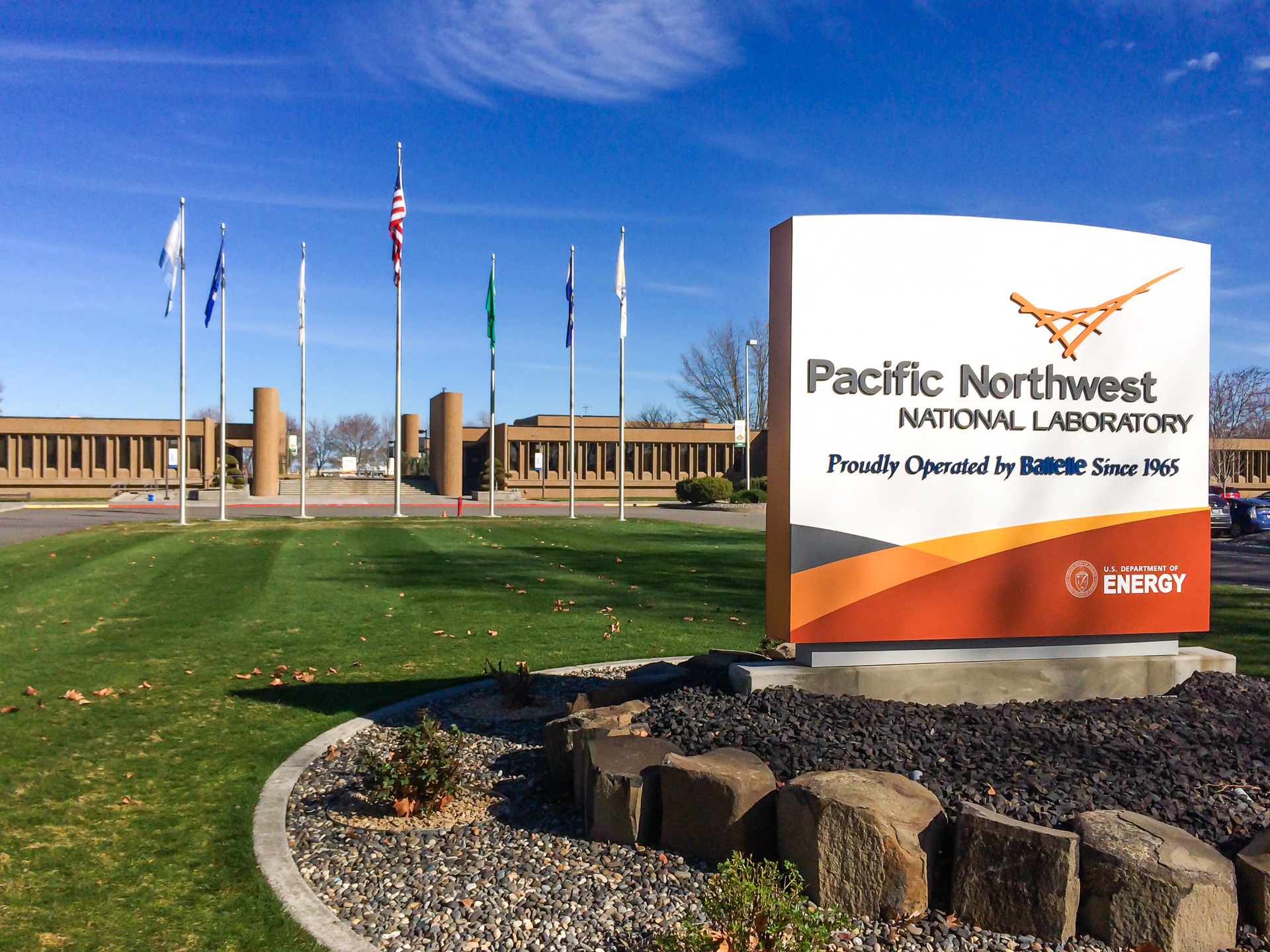 The Richland campus is the primary location for PNNL.